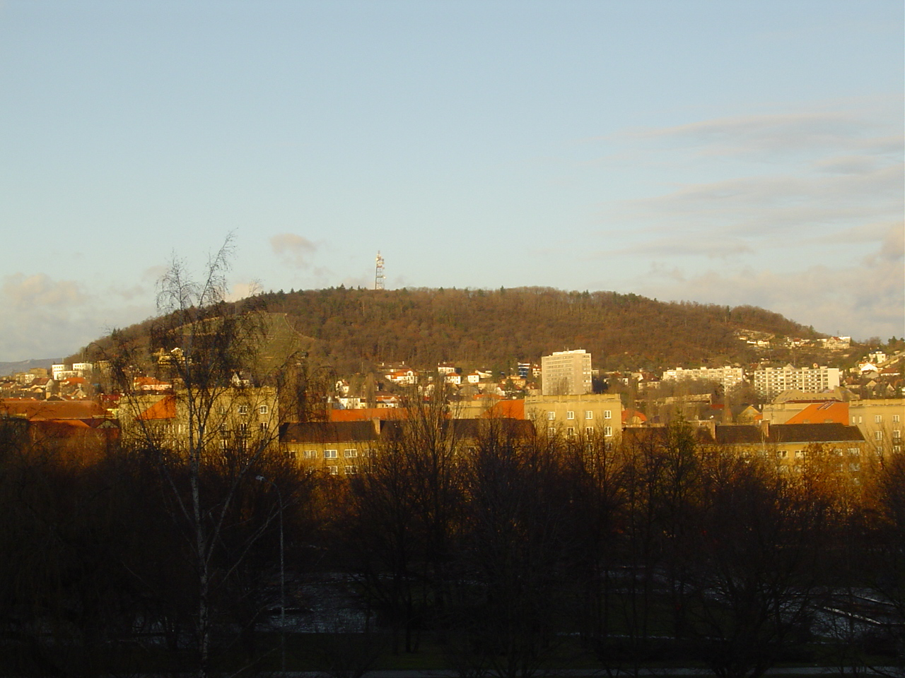 The hill Široký vrch in city Most, Czech Republic